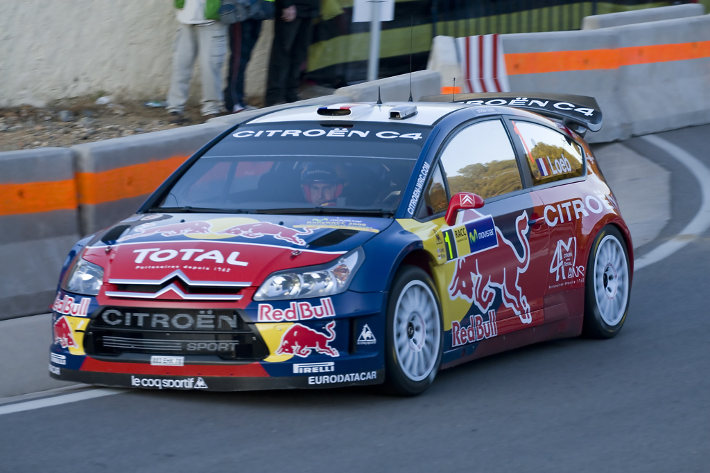 Sébastien Loeb driving his Citroën C4 WRC at the 2008 Rally Catalunya.